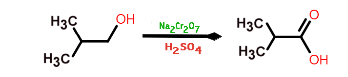 Isobutyric acid synthesis from isobutanol